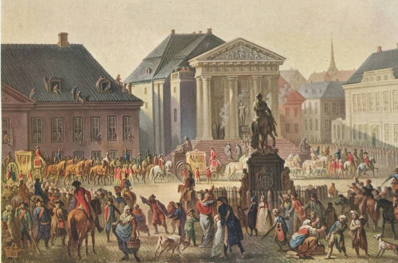 Crown Prince Frederik and Crown Princess Marie's arrival in Copenhagen on 4 September 1790.